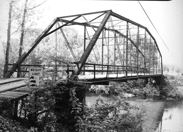 Historic American Engineering Records (HAER) Photographs- These documents were produced by the Historic American Engineering Record (HAER) section of the Heritage Documentation Program of the National Park Service in coordination with the Arkansas State Highway and Transportation Department.The HAER program was started in 1969 to document historic sites and structures related to engineering and industry. It conducts a nationwide documentation program in partnership with state and local governments. The documentation produced by HAER provides a permanent record of the nation's most important historic sites and large-scale objects as well as providing baseline documentation for rehabilitation and restoration; and makes available well-researched materials for historic interpretation and illustration. This documentation is produced in three parts; large-format photography, written history and measured drawings.